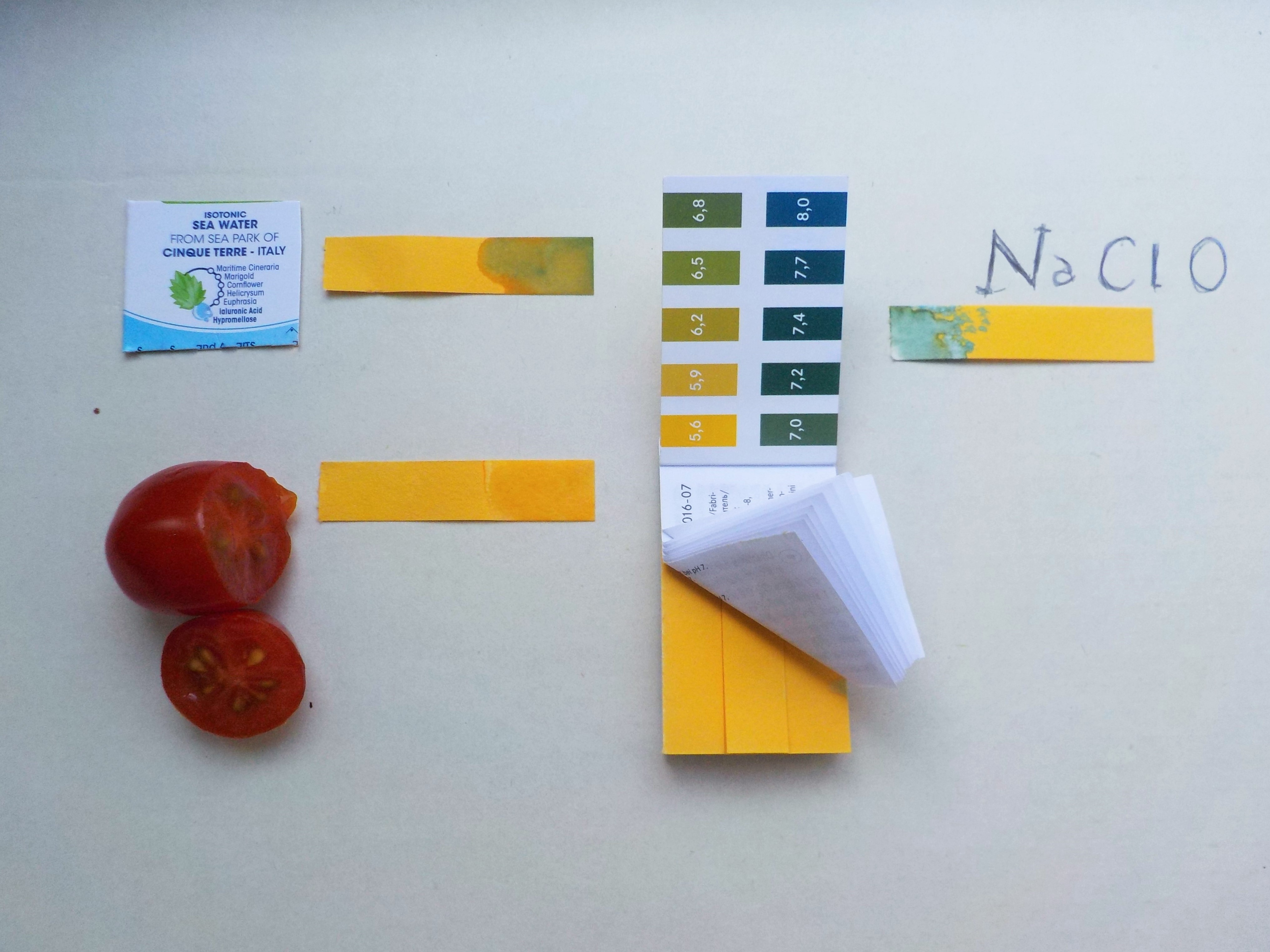 Universal indicator paper for the measurement of acidity or alkalinity (pH indicator). Concentration of Hydrogen ions compared to distilled water.